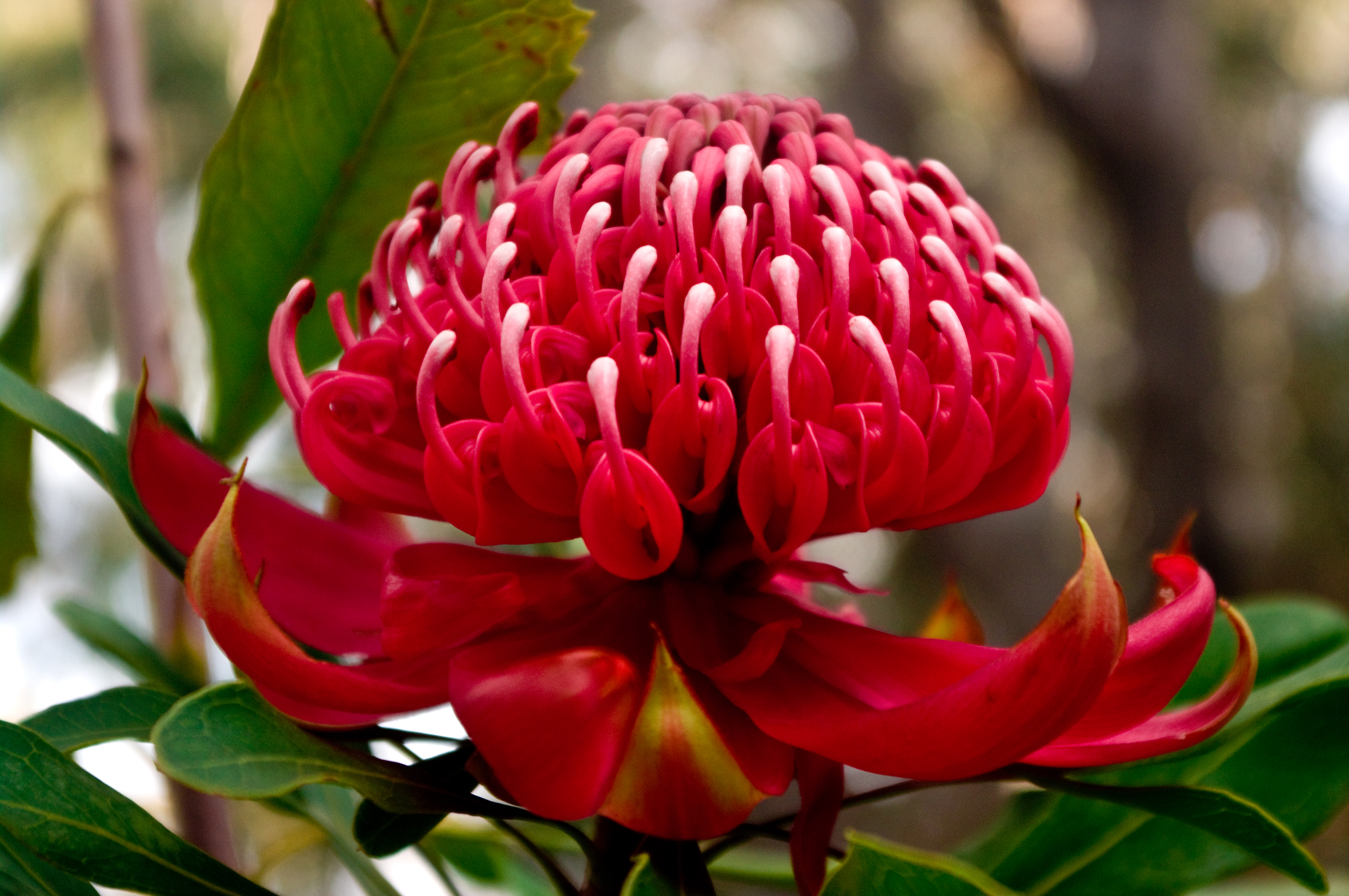 Waratahs in full bloom in Blue Gum Forest.